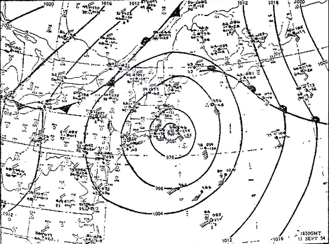 Surface weather chart for 1830 GMT, September 11 1954